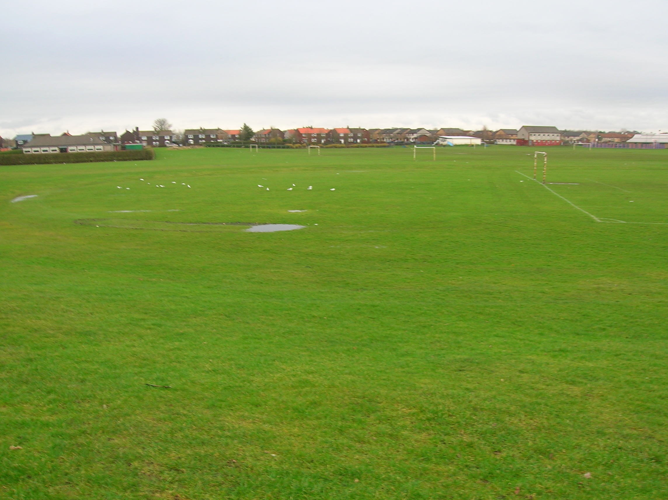 Site of Trindlemoss or Scotts Loch, Irvine central Recreation Ground, Irvine, North Ayrshire, Scotland.